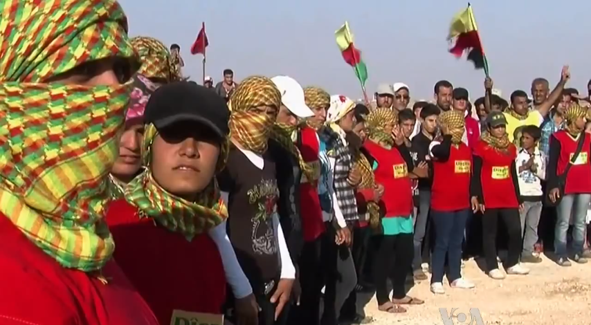 PYD supporters at a funeral for a local of a village outside of Afrin, Syria, who had died fighting alongside the PKK in Turkey.